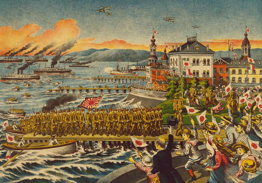 "The landing of the Japanese army--Welcomed by every nation at Vladivostok" (sic) -- Japanese occupation of the Russian city of Vladivostok during the Russian Civil War